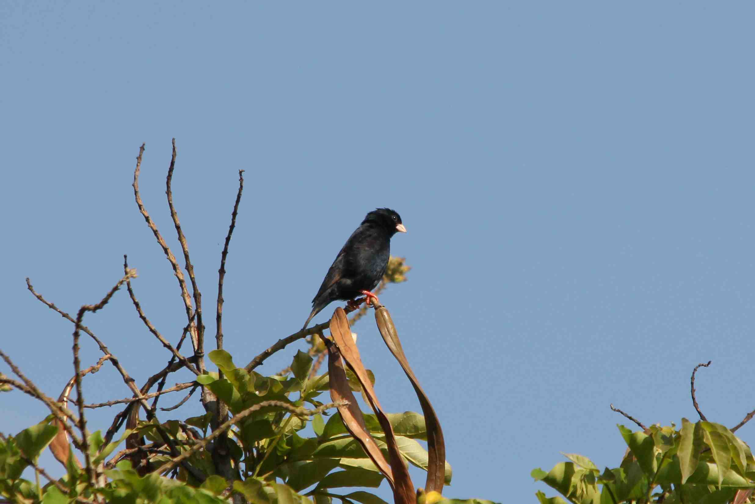 Village Indigo Bird - Vidua chalybeata. Photographed in Nairobi, Kenya in 2011.